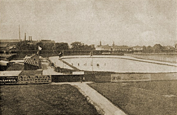 Idrottsplatsen in Gothenburg, Sweden. Photo from 1900 or earlier.